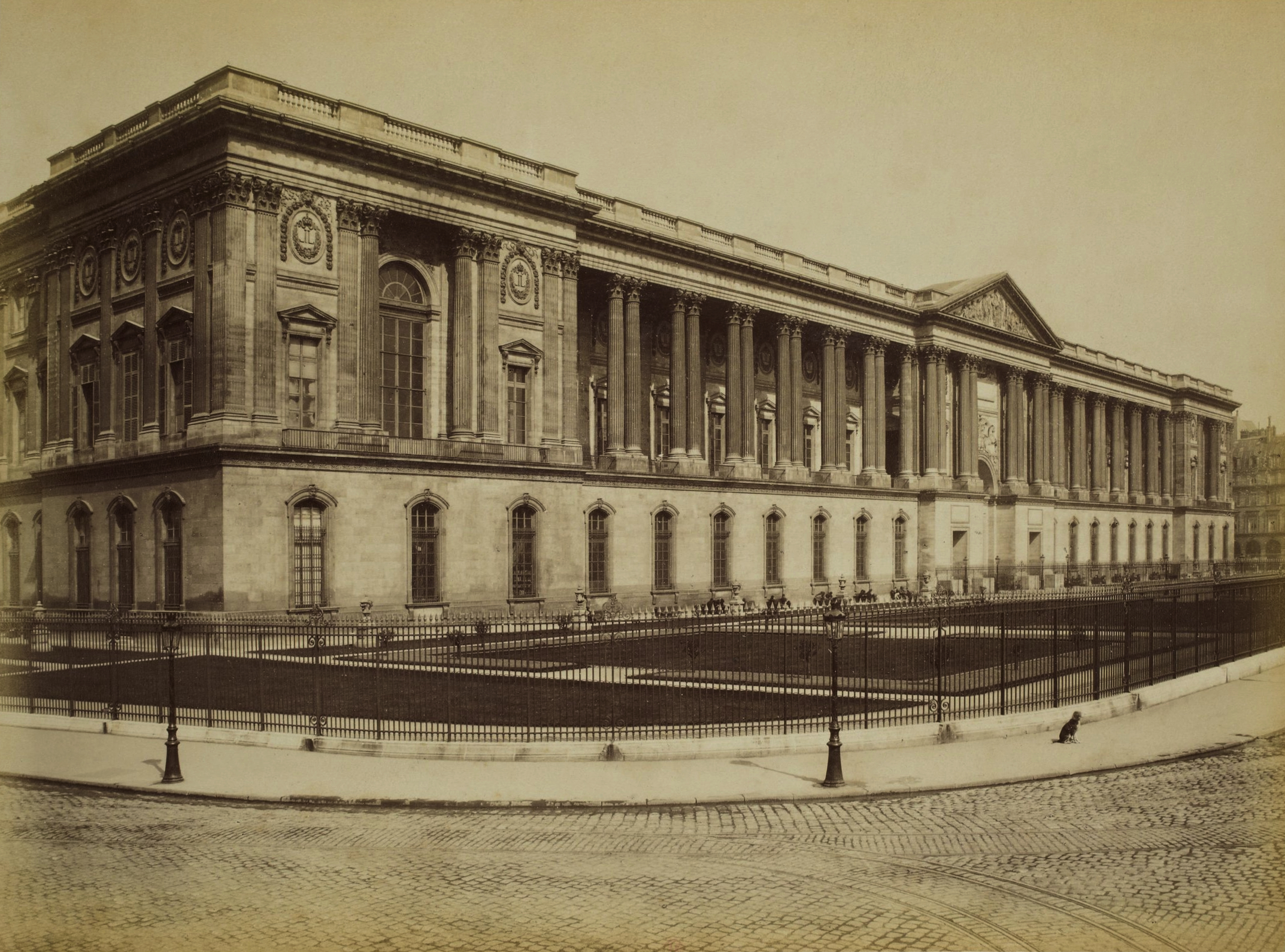 East facade of Louvre, Paris.